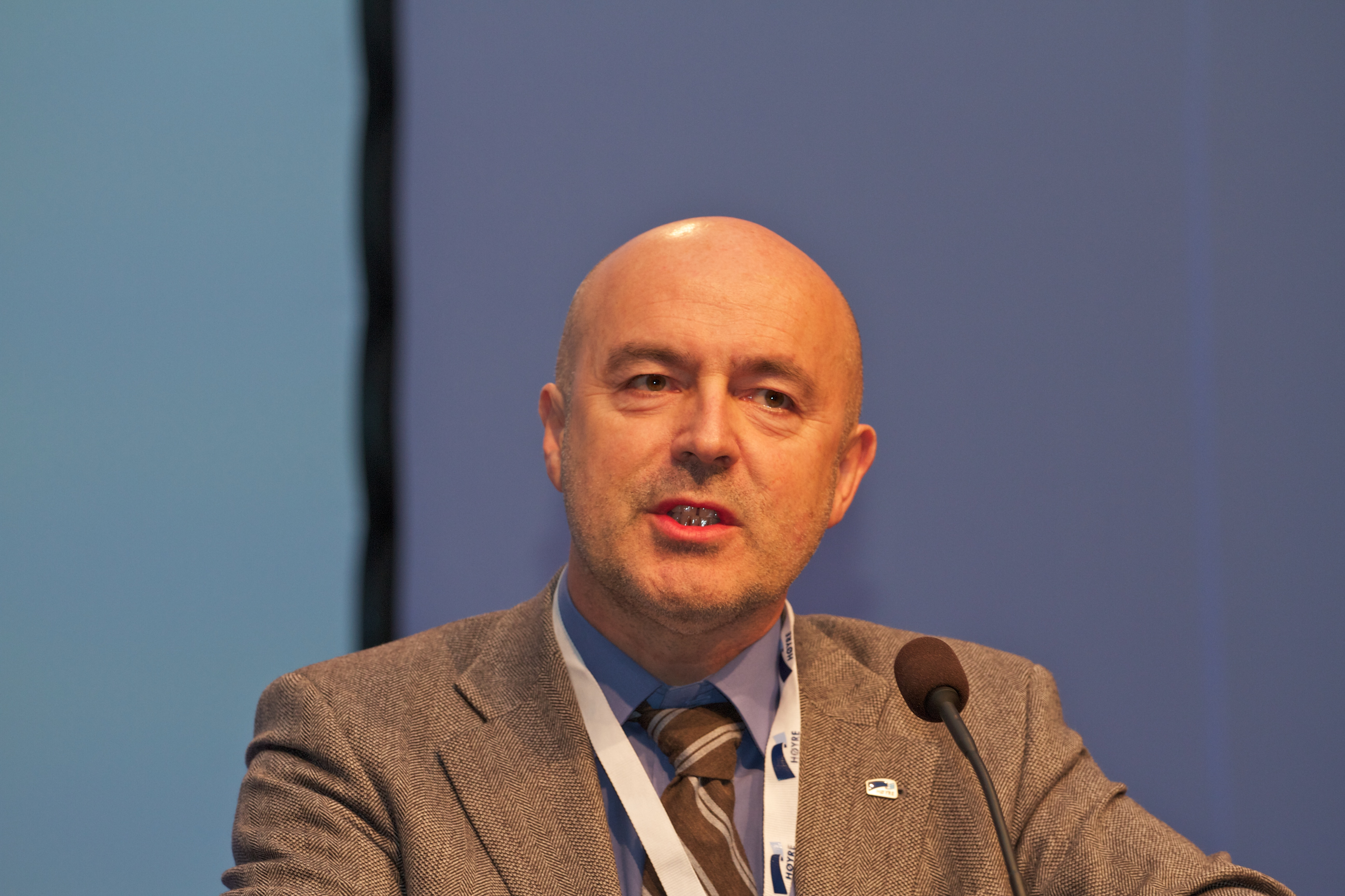 Ivar Kristiansen, Norwegian conservative politician.